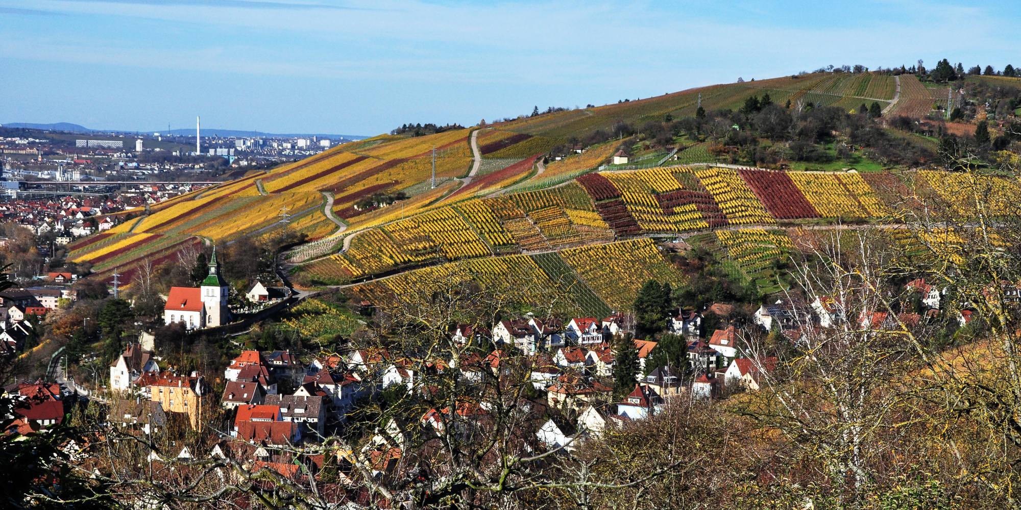 Obertürkheim, part of the city of Stuttgart, embedded in autumnal vineyards.